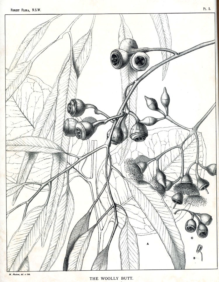 Eucalyptus longifolia, Plate 5 from "Forest Flora of New South Wales" by Joseph Henry Maiden (1859–1925)